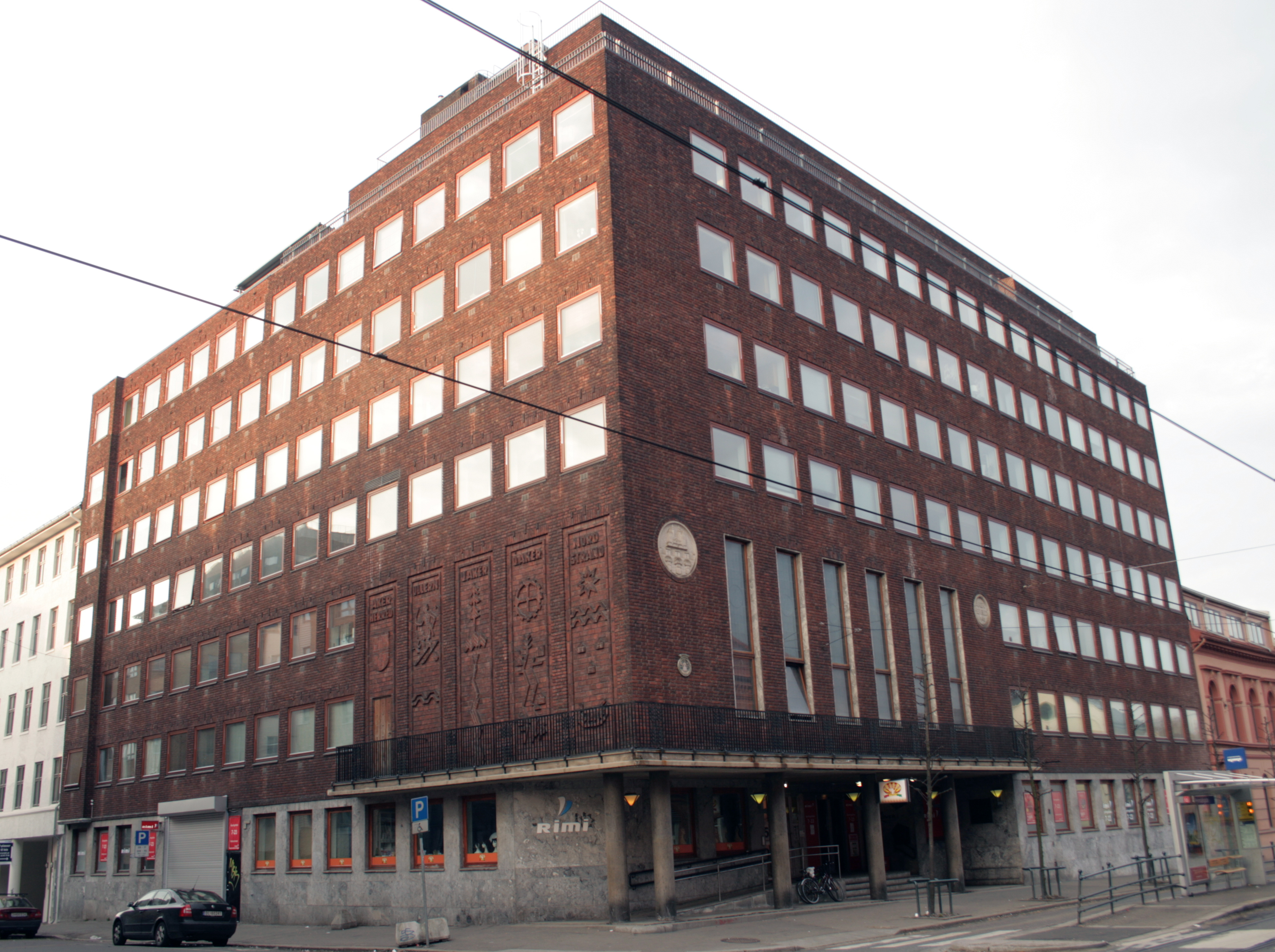 Trondheimsveien 5c in Oslo, Norway. Administration offices for the former Aker municipality, built 1941–1942. Later used as apartments.